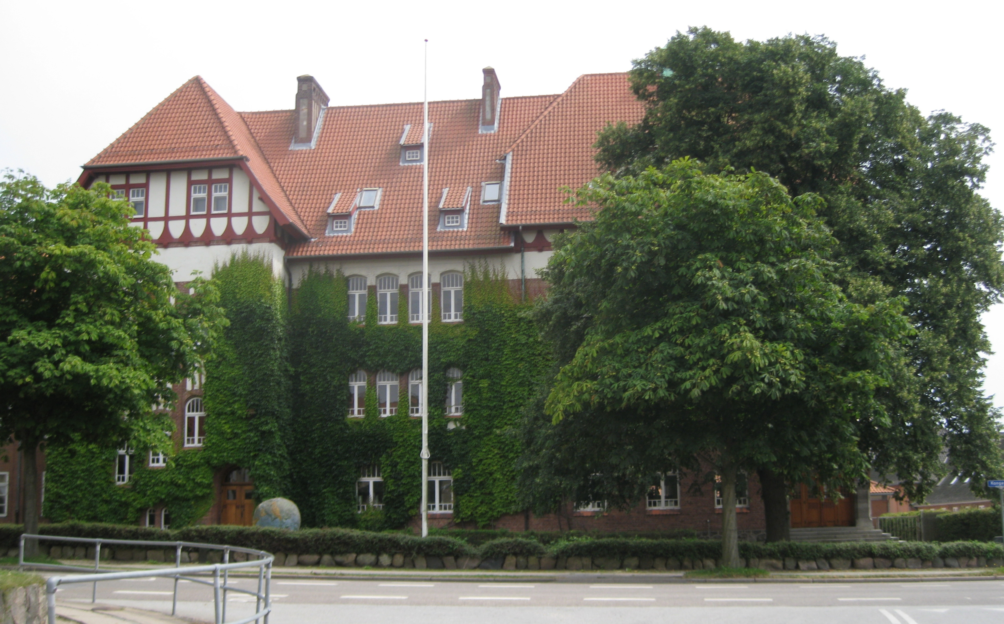 Ahlmann-skolen, Sønderborg, Denmark